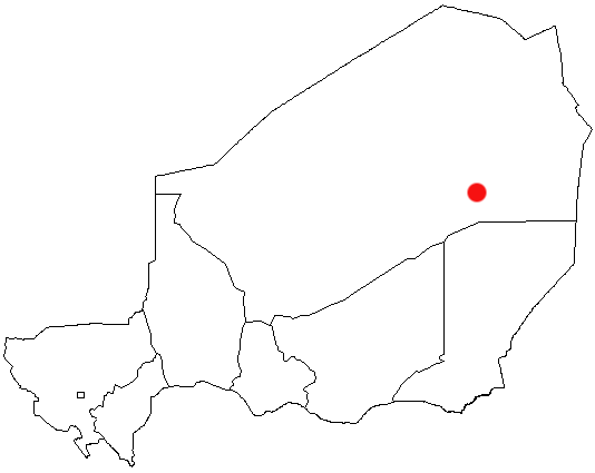 Bilma, Niger Location Map; created with the GIMP. Made by User:Acntx.